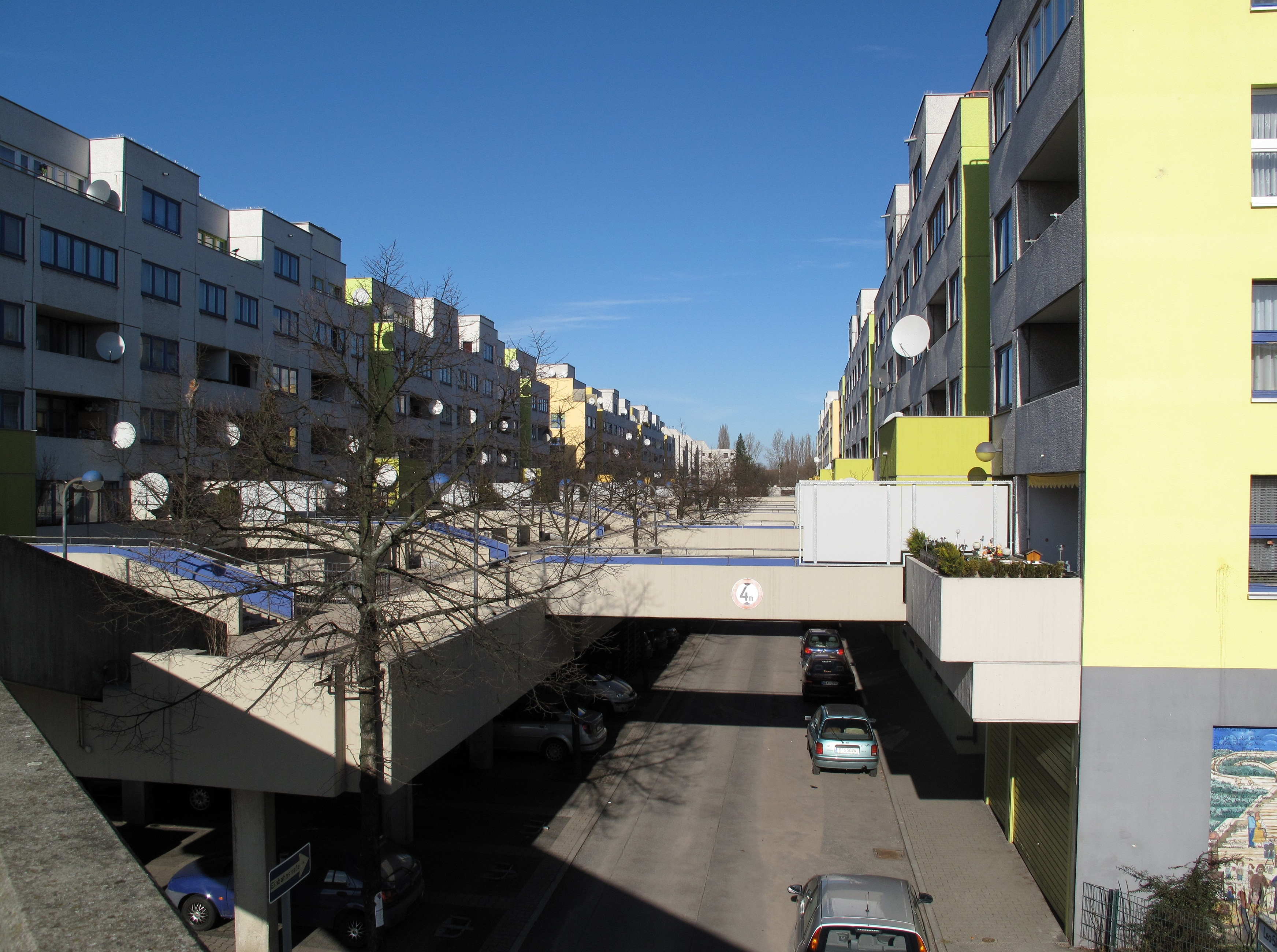 Southern deck of the Leo-Slezak-Straße at the corner to the Fritzi-Massary-Straße in the High-Deck-Siedlung. The High-Deck-Siedlung is a housing estate in Berlin-Neukölln with ca. 6.000 inhabitants. The estate was built in the 1970s/1980s within the subsidized housing by the architects Rainer Oefelein and Bernhard Freund. Their innovative urban development concept counted on a structurally separation of pedestrians and traffic in opposition to Berlin's „urbanity through density“ conception (high-rise-estates) at that time. Above the streets spandrel-braced, green foot pathes (the High-Decks) connect the mainly five to six storied houses. Was the estate after it's construction regarded as the epitome of a tranquil and modern urban living at the green edge of West Berlin, it has evolved after the fall of Berlins Wall into a social hotspot. There was set up a neighbourhood management in 1999.